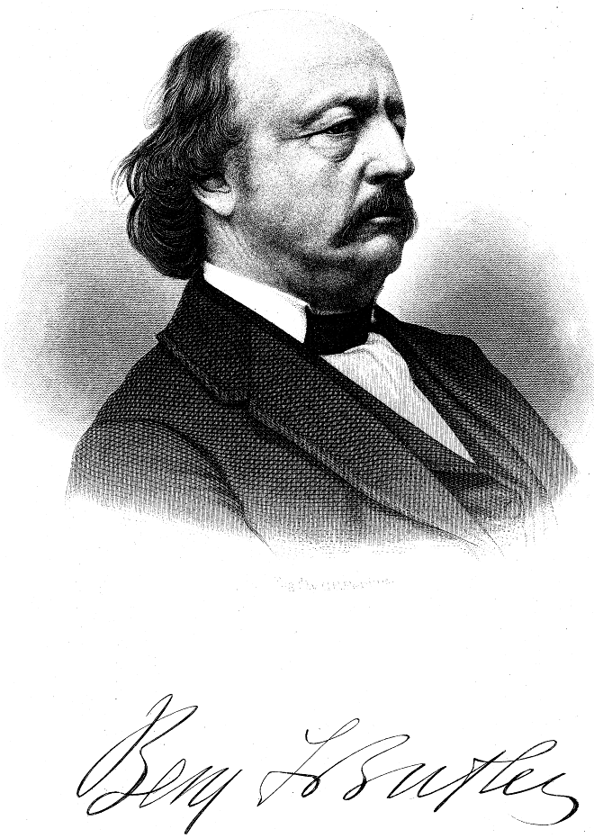 Benjamin Franklin Butler (politician) - Project Gutenberg eText 13761